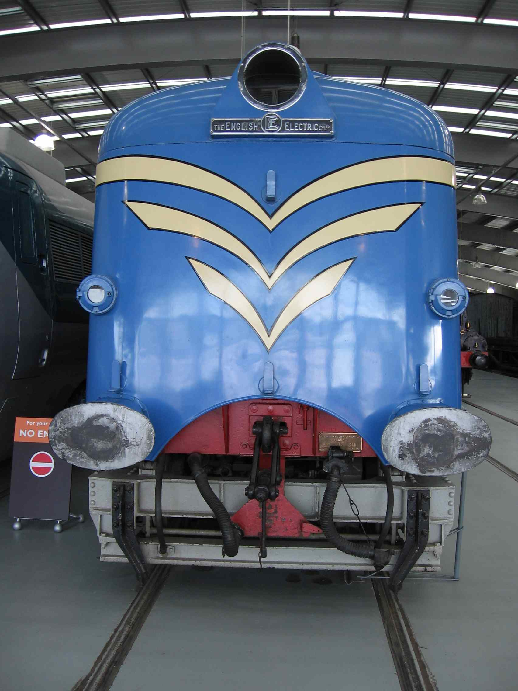 taken by me at NRM "Locomotion", Shildon UK October 2006